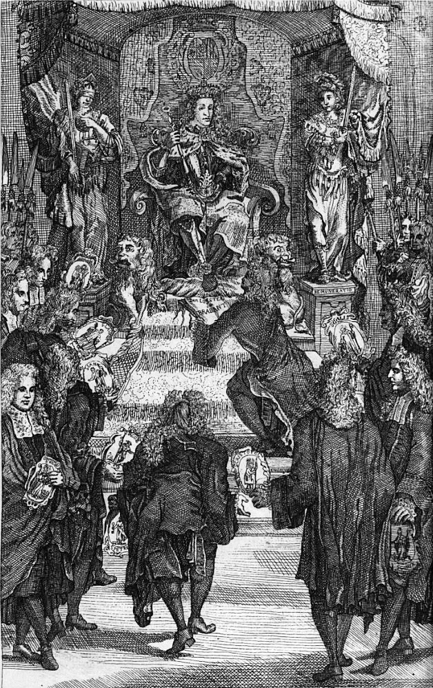 Second title page of Luyster van Brabant ('Luster of Brabant') published in the Austrian (Southern) Netherlands (Belium) in 1699, promoting the old urban privileges viz-à-viz the emperor